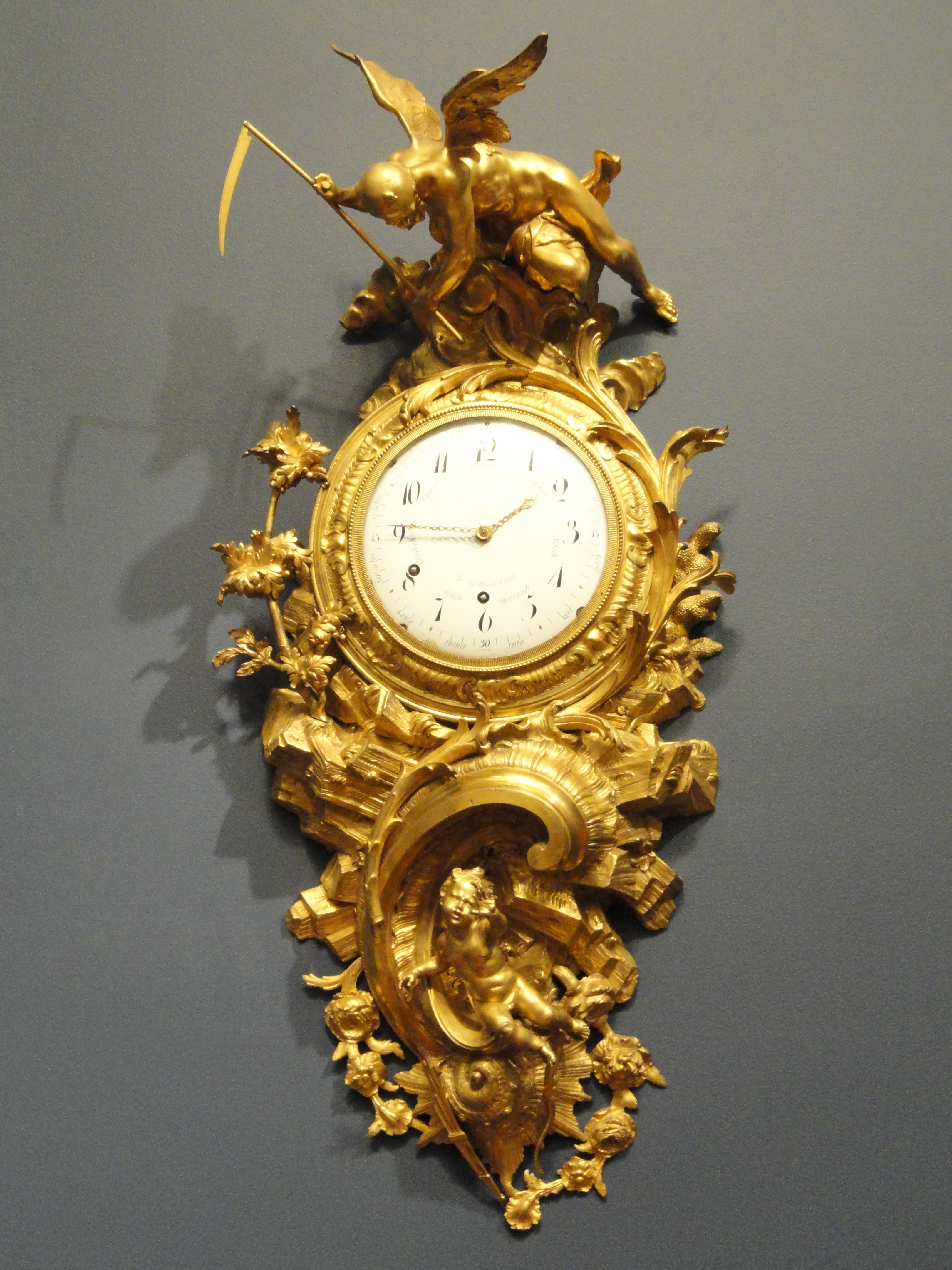 Exhibit in the Nelson-Atkins Museum of Art, Kansas City, Missouri, USA. This item is old enough so that it is in the public domain. ; I took this photograph and release it into the public domain.